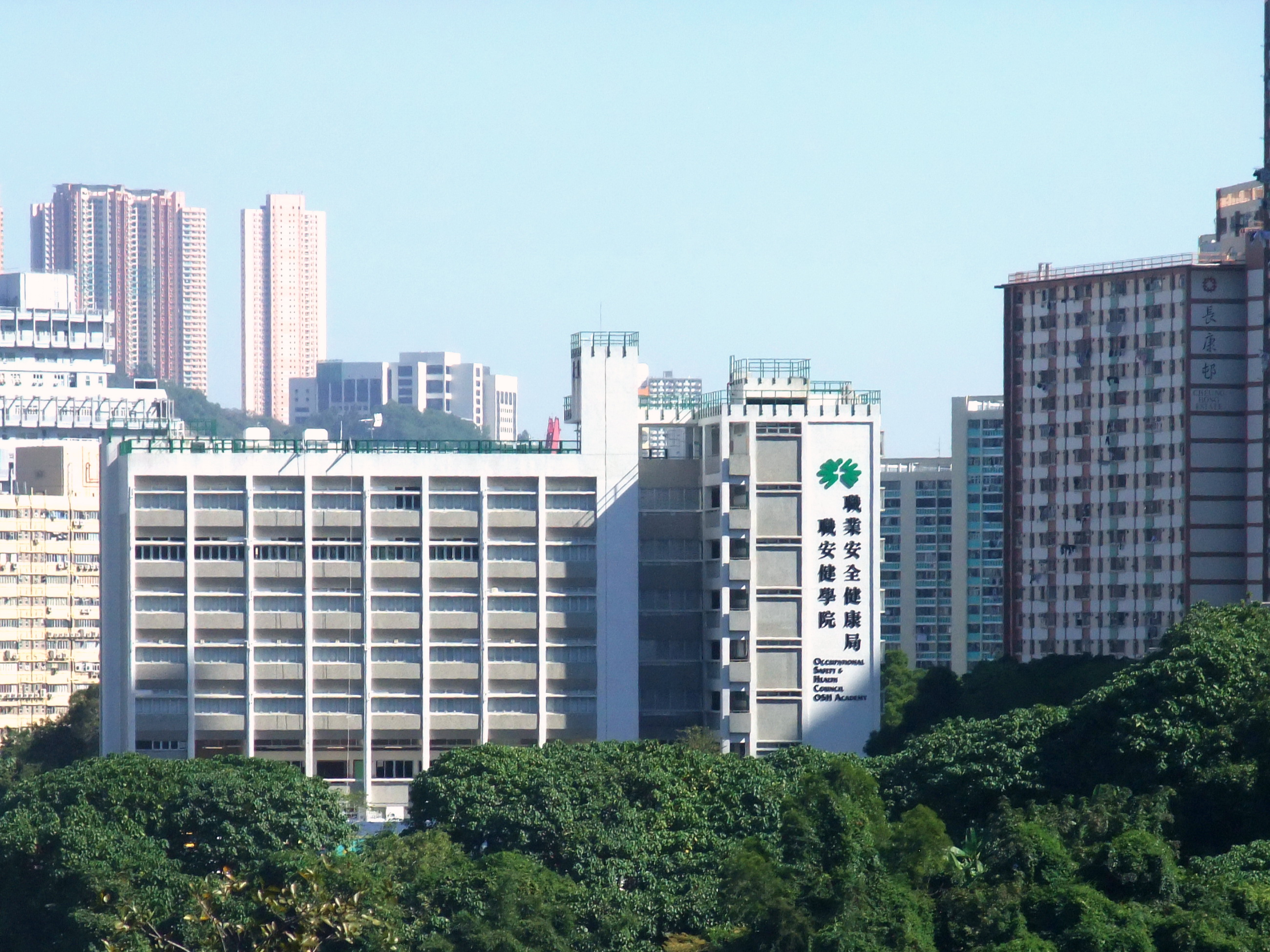 Occupational Safety and Health Council OSH Academy, 62 Chung Mei Rd, Tsing Yi, New Territories, Hong Kong.